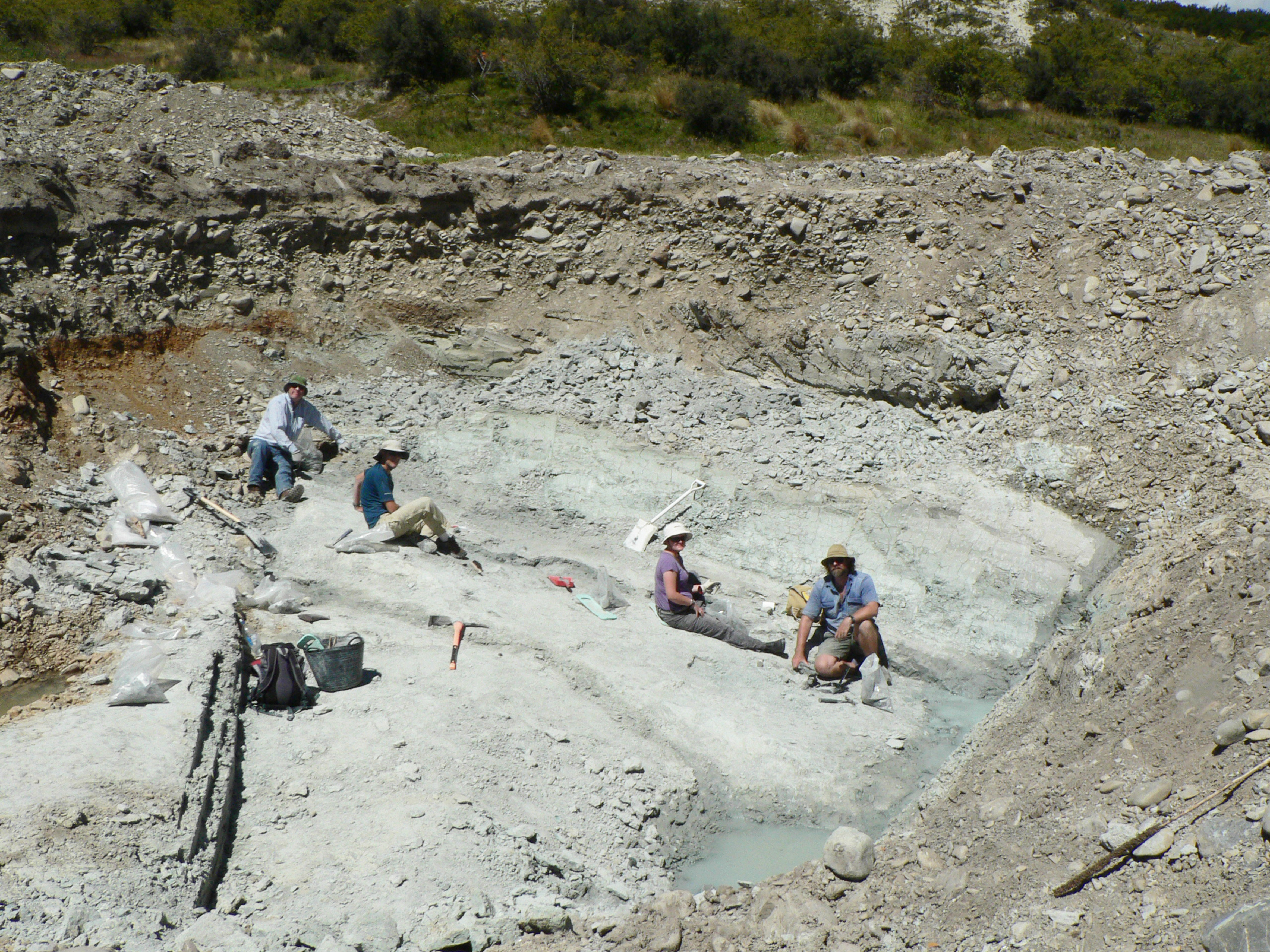 Quarrying bed HH1a, Bannockburn Formation, for the early Miocene St Bathans Fauna, 2014. The fossil St Bathans Fauna of New Zealand consists of animal remains that accumulated in a subtropical lake 16–19 million years ago, in what is now Central Otago.